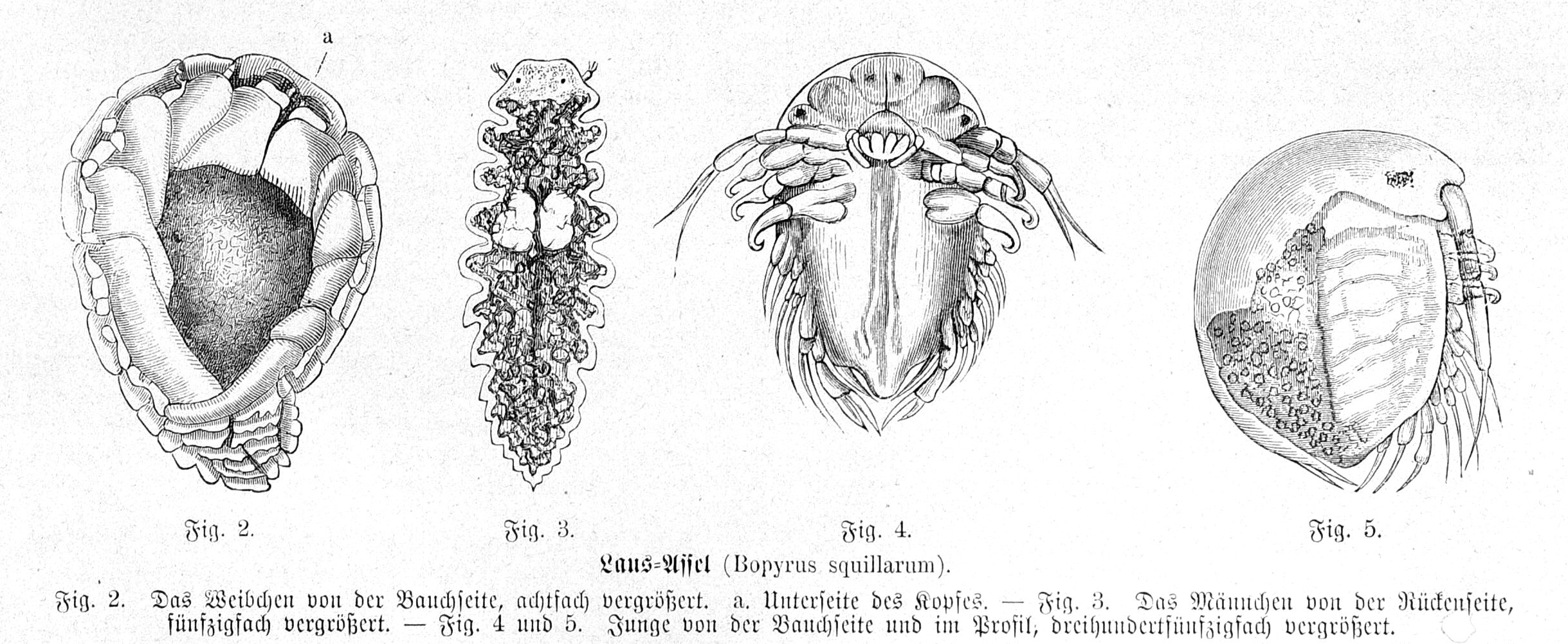 Drawing of parasitic isopod Bopyrus squillarum (Cymothoida: Bopyridae) by Ernst Keil. From left ro right: female, vental view, a points head male, dorsal view juvenile, ventral view juvenile, lateral view